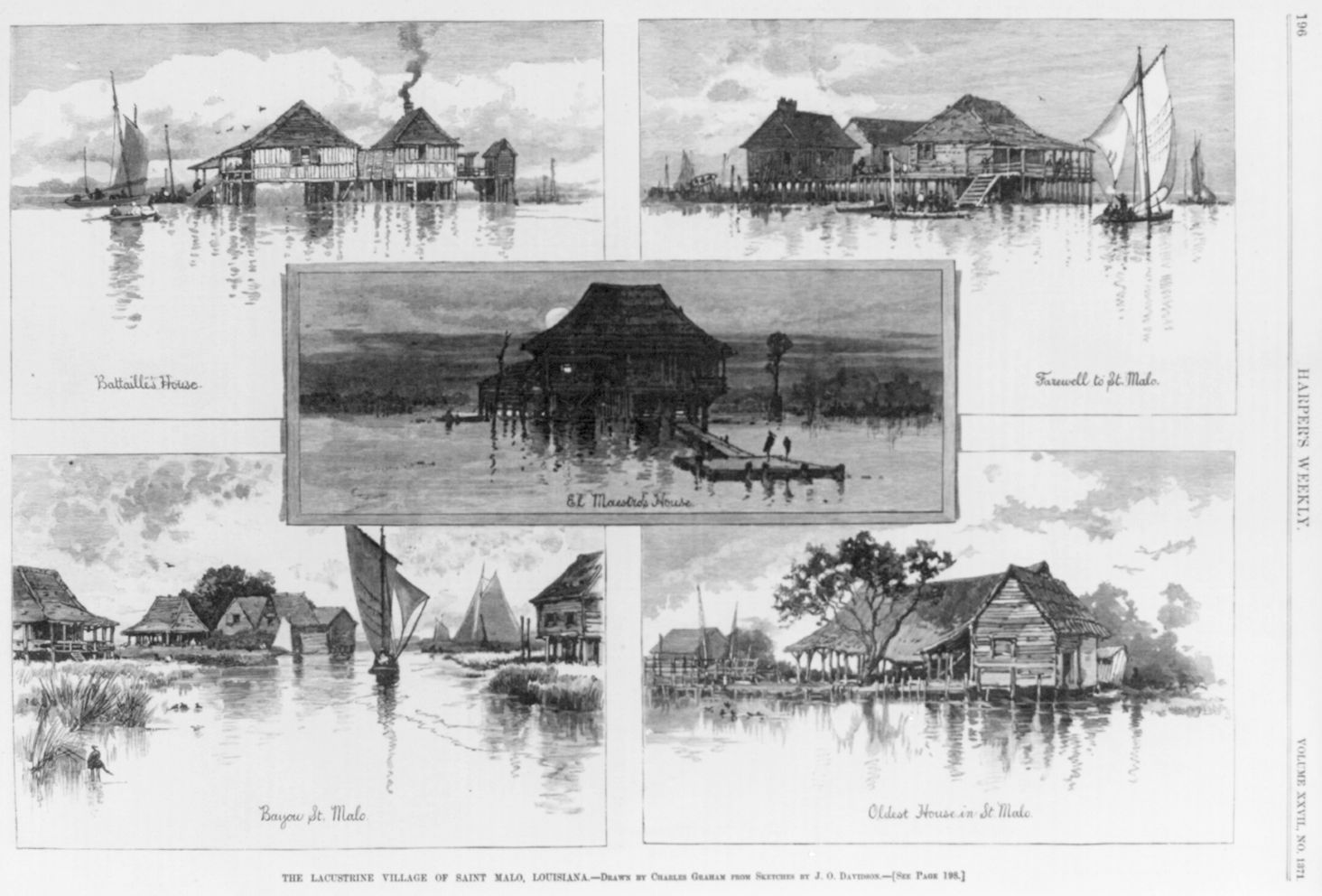 5 views of Saint Malo, Louisiana, 1883. The Lacustrine Village of Saint Malo, Louisiana. Settlement of Tagalas from Philippine Islands in swampland of S.E. Louisiana: 1. Bataille's house; 2. Farewell to St. Malo (fishing boat departing); 3. Bayou, St. Malo; 4. Oldest house in St. Malo; 5. El Maestro's house.